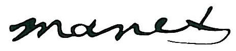 autograph of the painter Édouard Manet